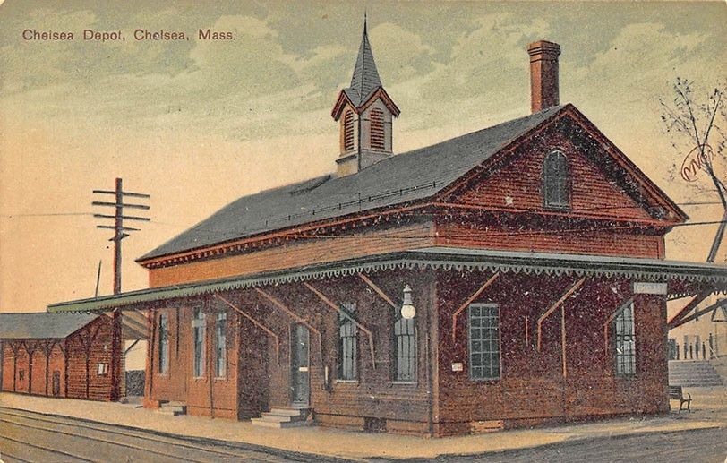 Early divided back postcard of Chelsea station